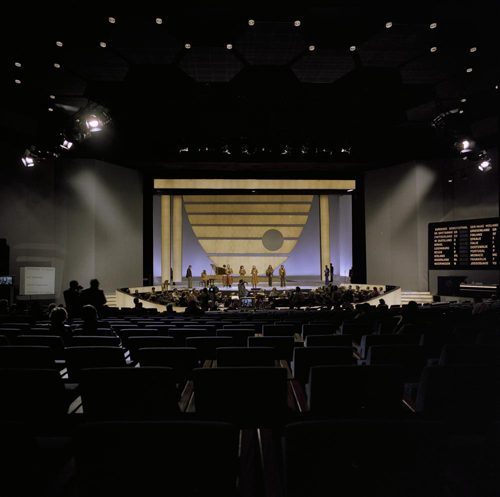 Stage of the Eurovision Song Contest 1976, designed by Roland de Groot. It consists of a parabolic figure, cut in horizontal strips and a circle. All strips and the circle can move seperately. Each country at the Eurovision Song Contest 1976 had its own background, consisting of the strips and circle